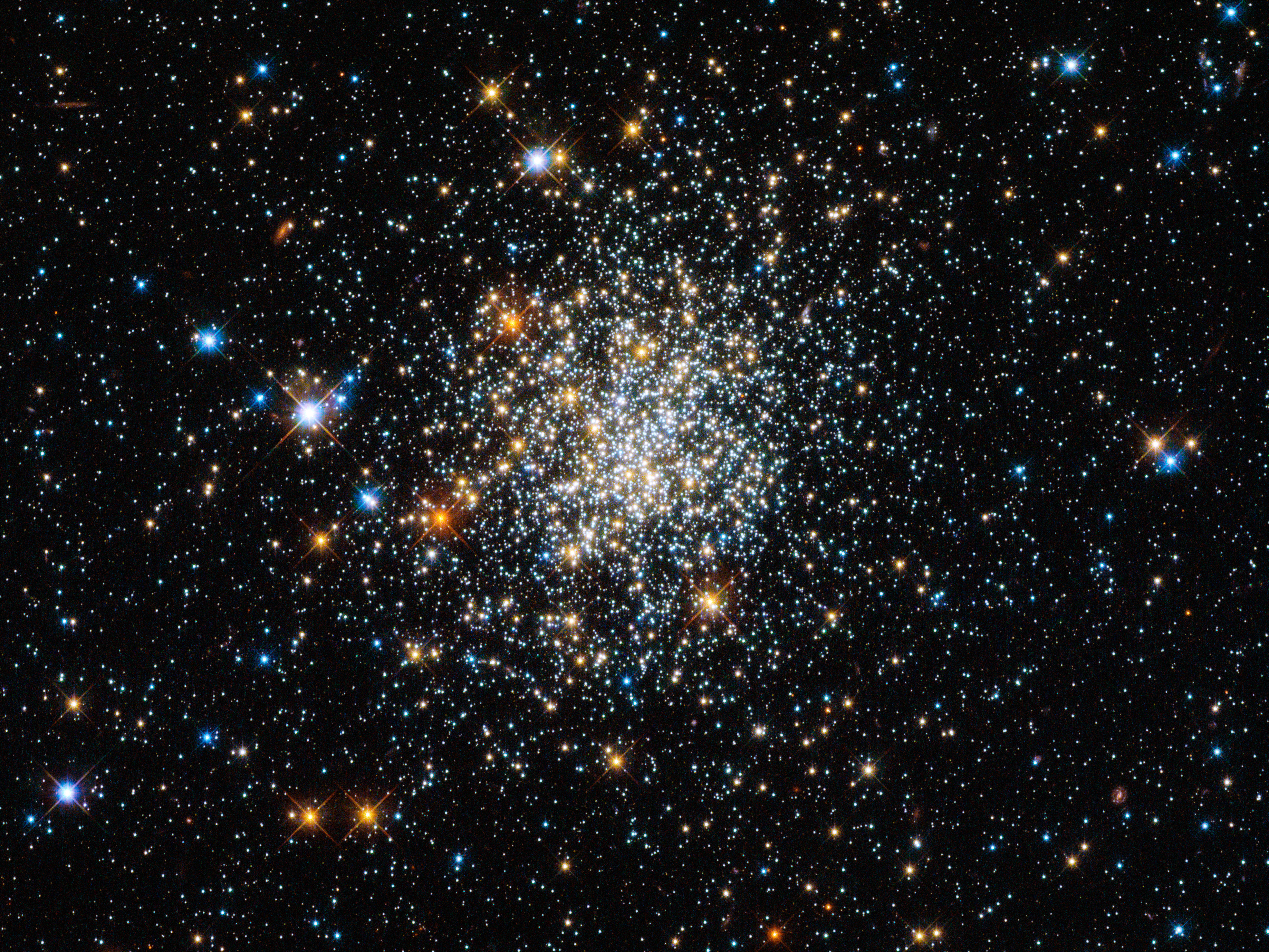 Globular clusters are roughly spherical collections of extremely old stars, and around 150 of them are scattered around our galaxy. Hubble is one of the best telescopes for studying these, as its extremely high resolution lets astronomers see individual stars, even in the crowded core. The clusters all look very similar, and in Hubble’s images it can be quite hard to tell them apart – and they all look much like NGC 411, pictured here. And yet appearances can be deceptive: NGC 411 is in fact not a globular cluster, and its stars are not old. It isn’t even in the Milky Way. NGC 411 is classified as an open cluster. Less tightly bound than a globular cluster, the stars in open clusters tend to drift apart over time as they age, whereas globulars have survived for well over 10 billion years of galactic history. NGC 411 is a relative youngster — not much more than a tenth of this age. Far from being a relic of the early years of the Universe, the stars in NGC 411 are in fact a fraction of the age of the Sun. The stars in NGC 411 are all roughly the same age, having formed in one go from one cloud of gas. But they are not all the same size. Hubble’s image shows a wide range of colours and brightnesses in the cluster’s stars. These tell astronomers many facts about the stars, including their mass, temperature and evolutionary phase. Blue stars, for instance, have higher surface temperatures than red ones. The image is a composite produced from ultraviolet, visible and infrared observations made by Hubble’s Wide Field Camera 3. This filter set lets the telescope “see” colours slightly further beyond red and the violet ends of the spectrum.